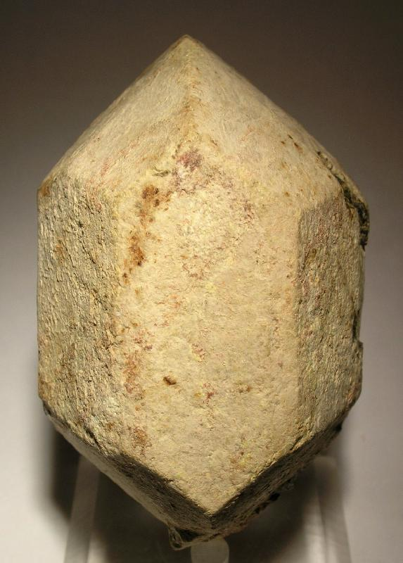 Brannerite Locality: Dieresis Mine, El Cabril, Sierra Albarrana, Hornachuelos, Córdoba, Andalusia, Spain (Locality at ) This is a huge, amazingly symmetrical and complete-all-around crystal of a very rare complex uranium oxide! I think it is a very significant specimen! 6.1 x 4.2 x 3.7 cm